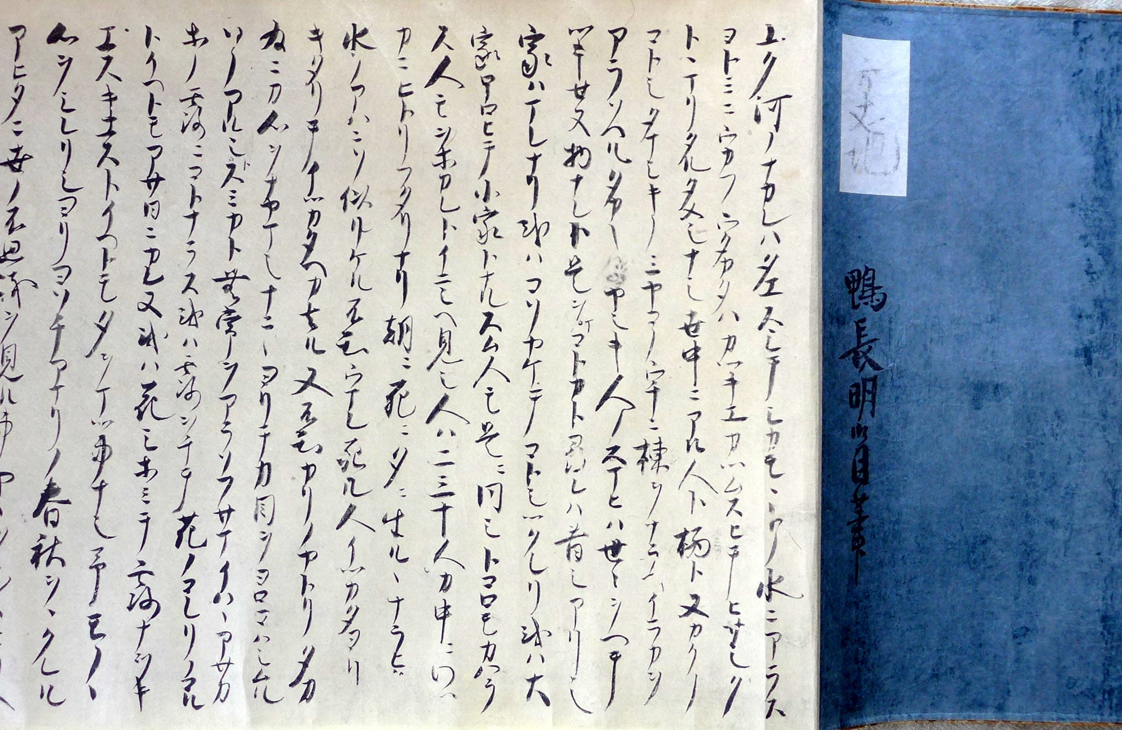 Chōmei's original manuscript in DAIFUKUKOJI temple.